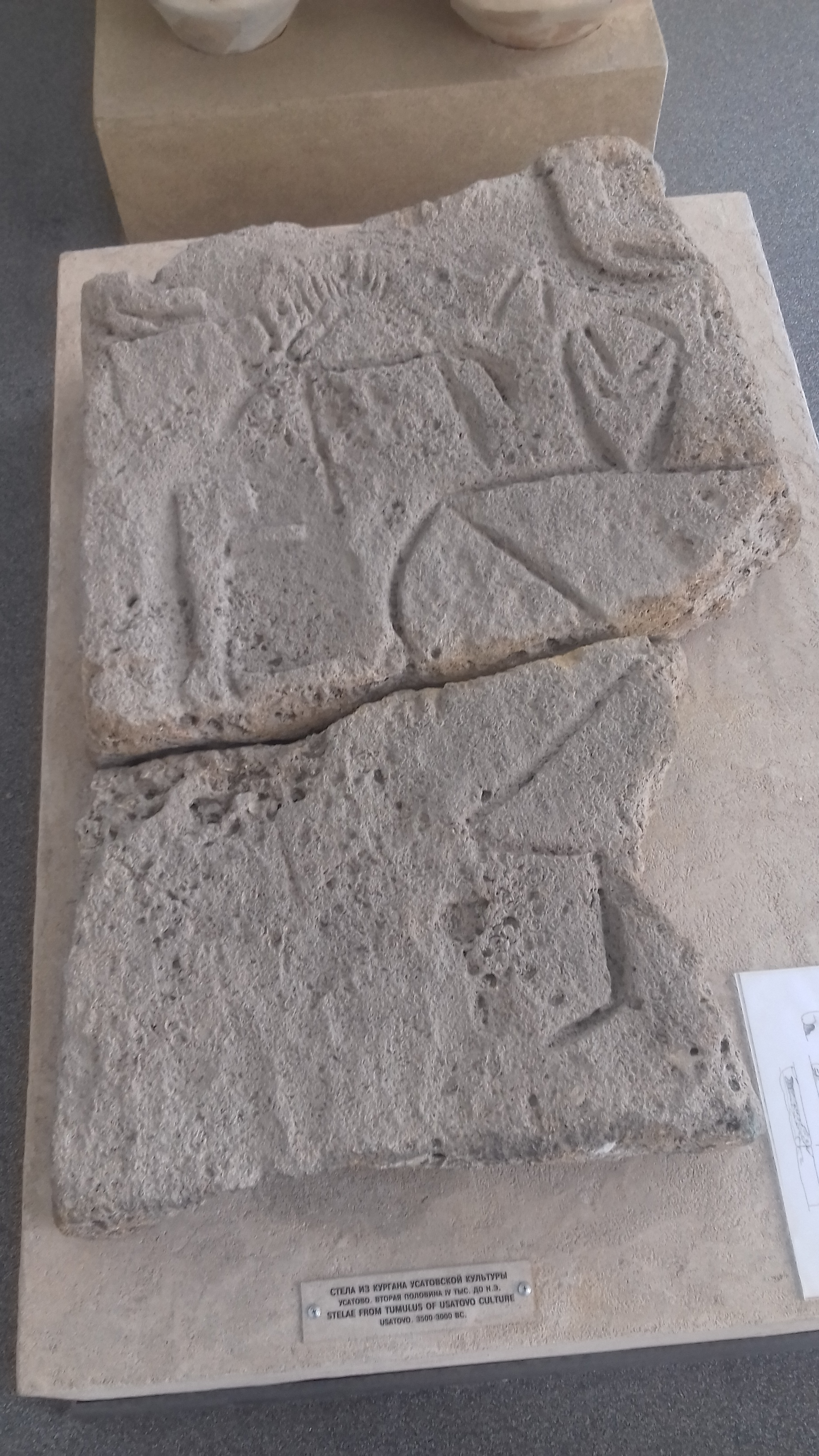 Stelae from tumulus of Coțofeni (Usatovo) culture. Usatovo 3500-3000 B.C. Odessa Archeological Museum.